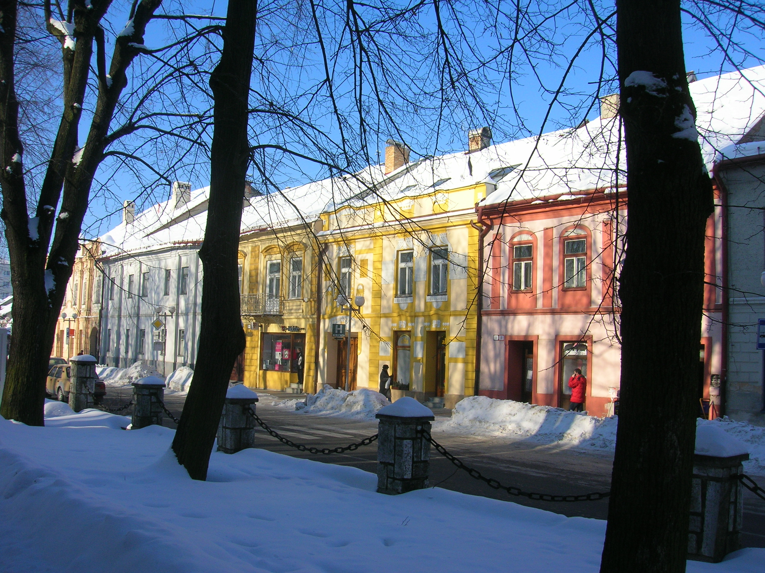 houses on the main square of Stará Ľubovňa in winter This medium shows the protected monument with the number 710-4012/0 in the Slovak Republic. This medium shows the protected monument with the number 710-4013/0 in the Slovak Republic.